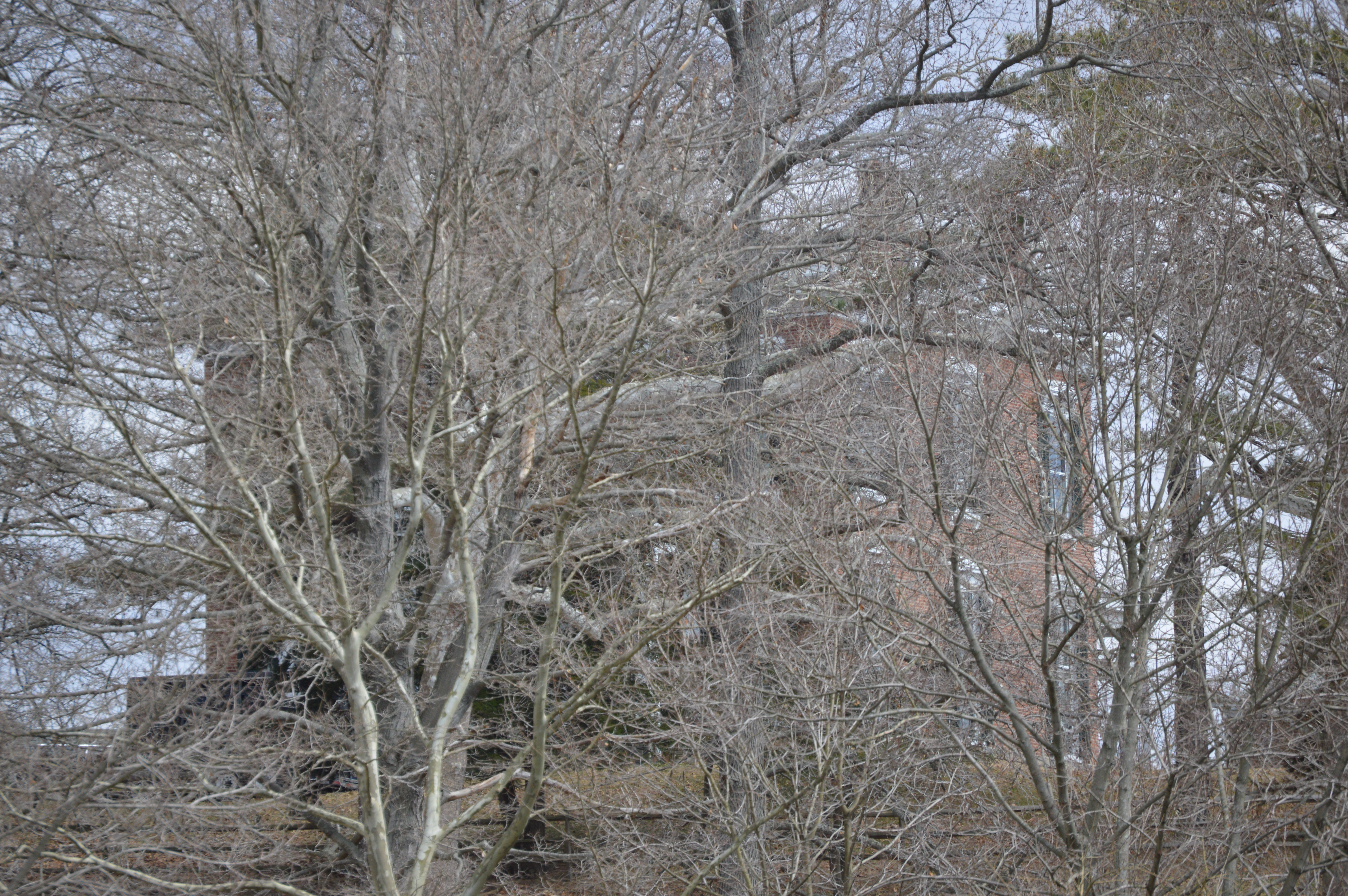 View through the trees of the Elm Hill farmhouse, located along West Virginia Route 88 northeast of Wheeling in Ohio County, West Virginia, United States. Built in 1850, it is listed on the National Register of Historic Places along with the rest of the farm complex.